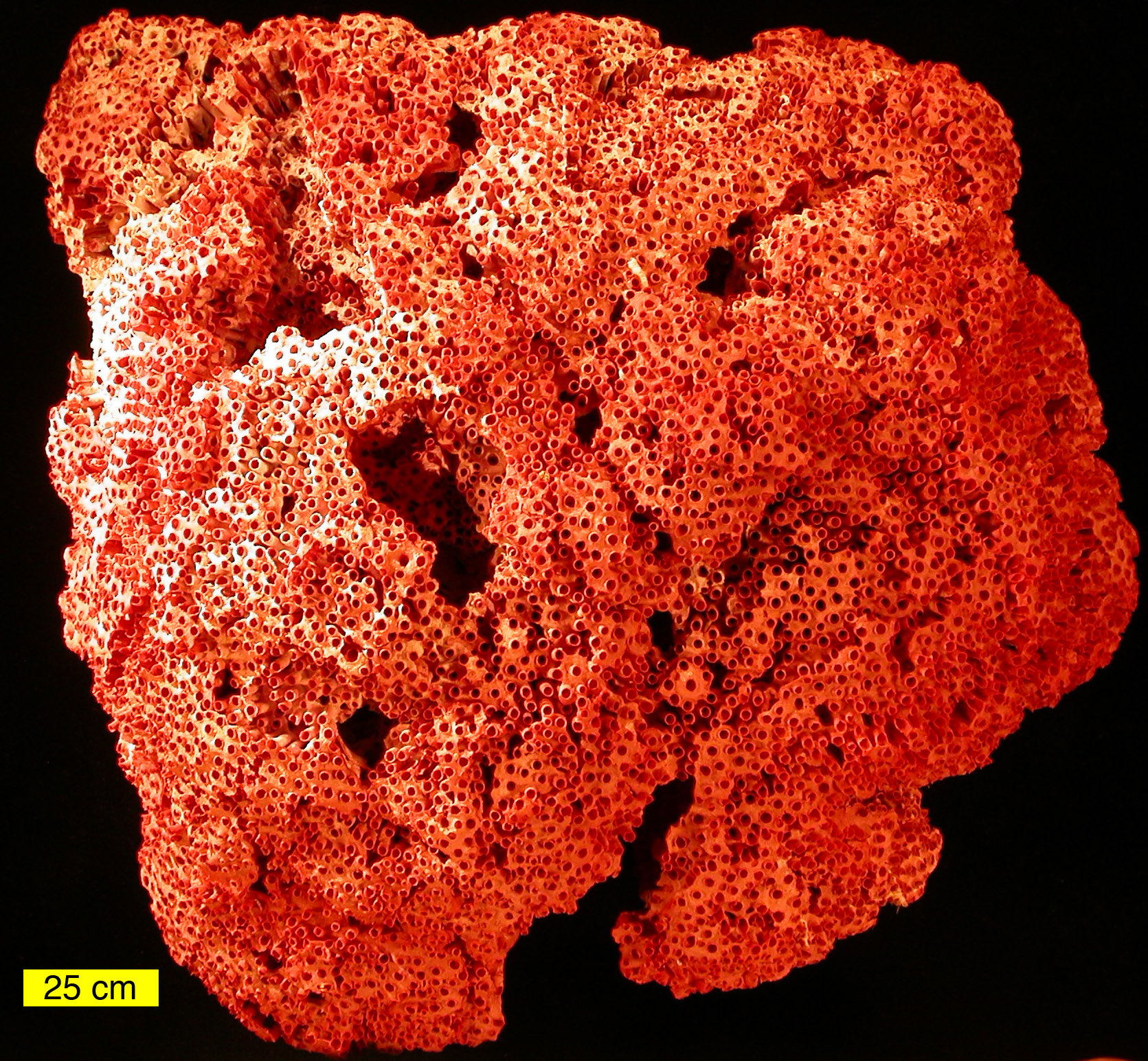 Modern Tubipora specimen.